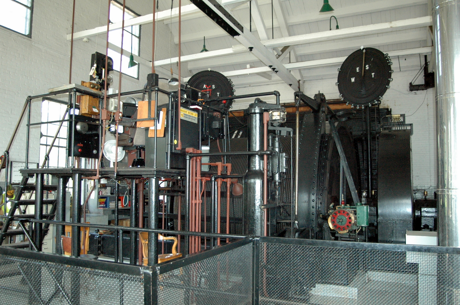 Interior shot of the Engine House at the Soudan Mine. Hoist drum featured.